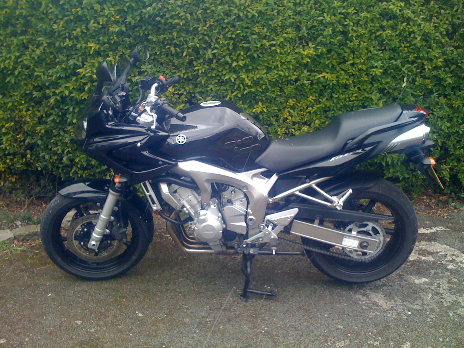 So today I picked up my new Yamaha FZR600 Fazer, and boy am I a happy biker!